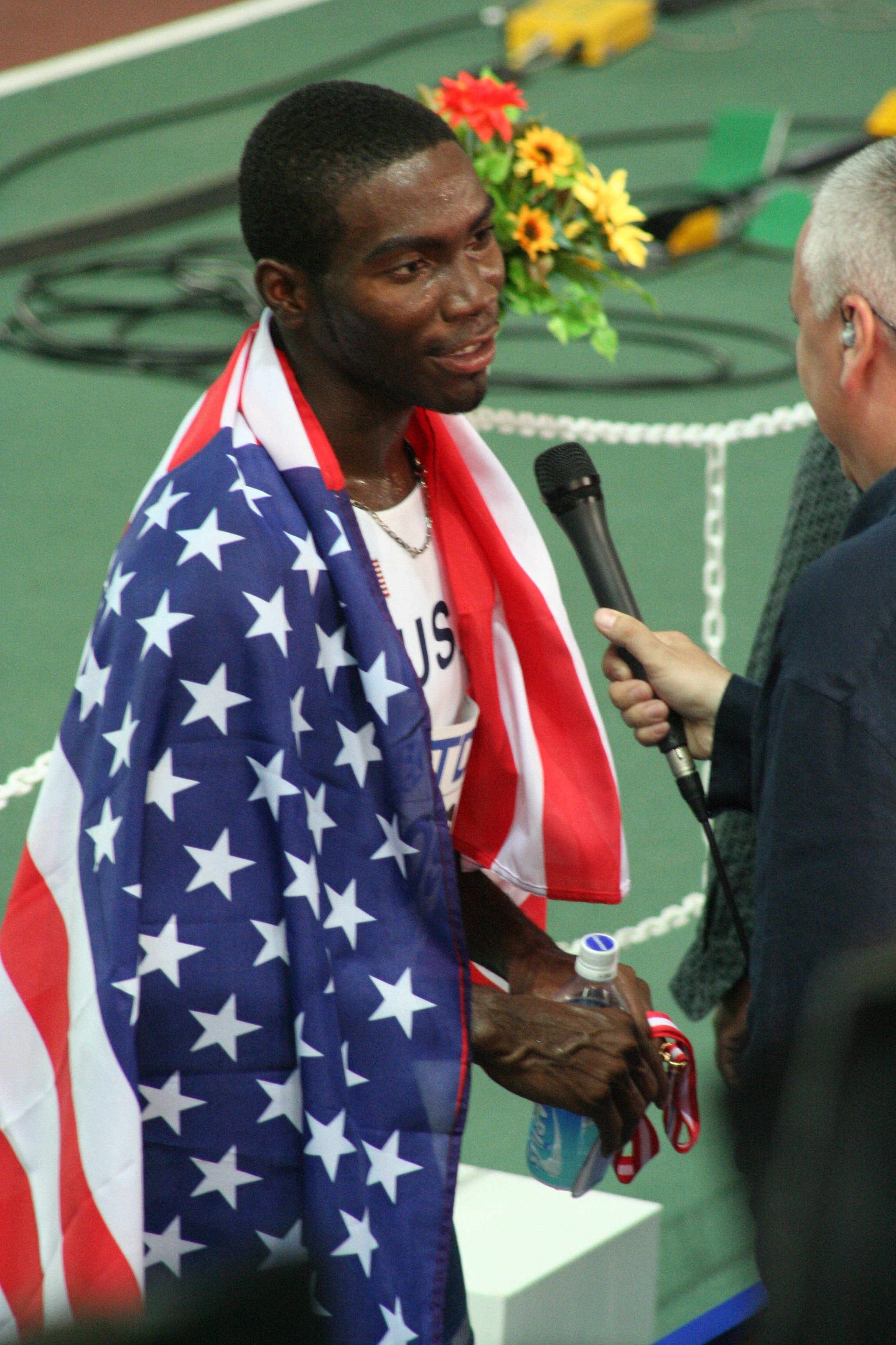 World Athletics Championships 2007 in Osaka - Men's 400 metres hurdles winner Kerron Clement during an interview after his victory